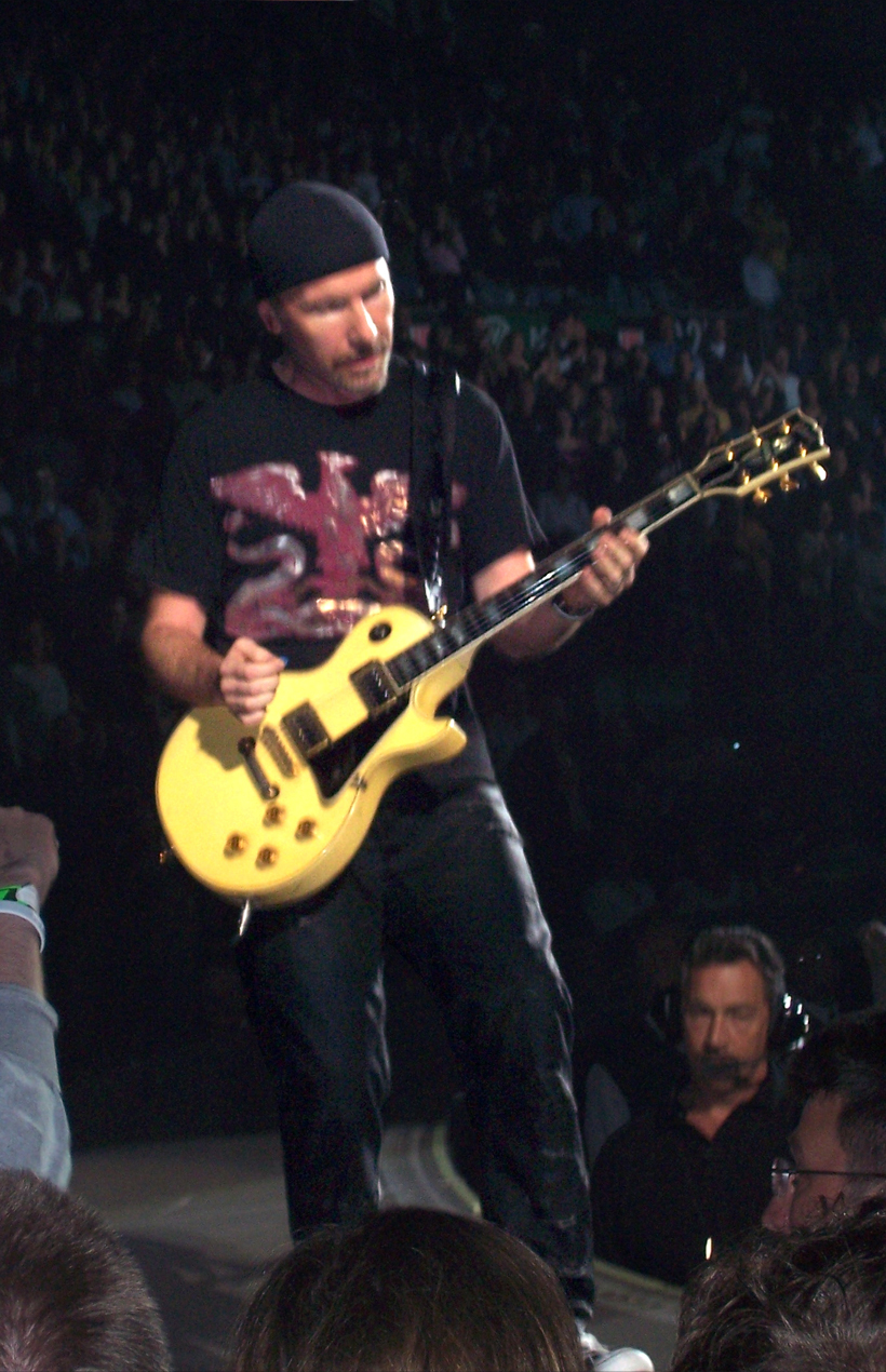 The Edge, performing "Electric Co." on U2's stop in Pittsburgh on the Vertigo Tour, October 22, 2005. This guitar was auction April 21, 2007 and earned $120,000.00 for "Music Rising", the foundation started by Gibson Guitars and The Edge to assist Gulf Coast musicians in replacing instruments lost in Hurricane Katrina.